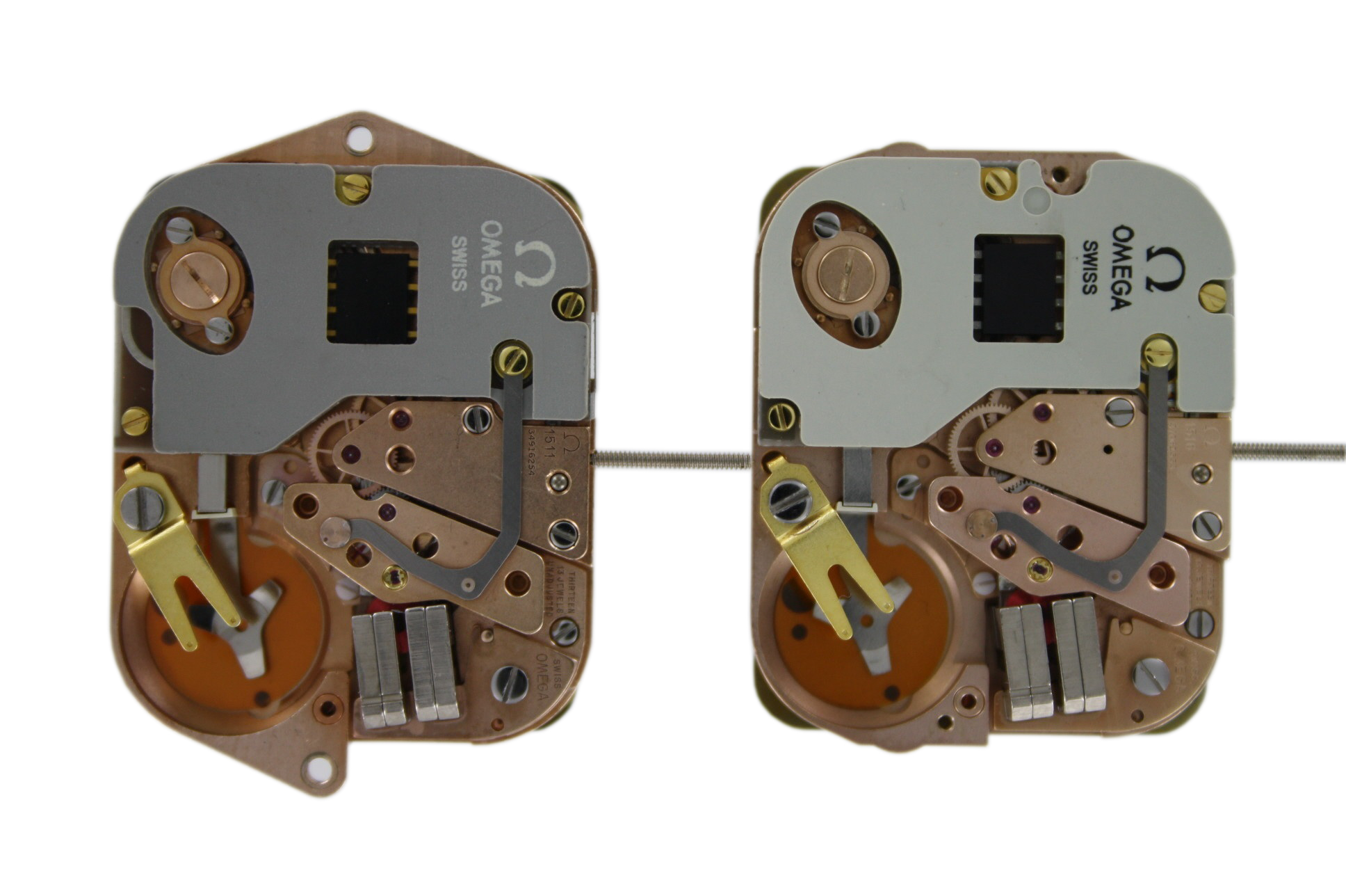 Omega Constellation Megaquartz F2.4mhz movement comparison calibre 1510 and 1516